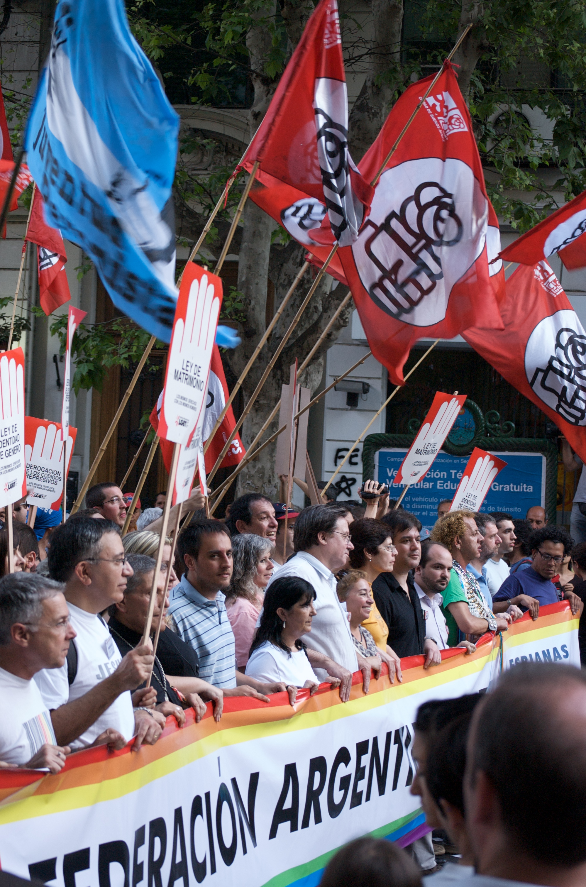 LGBT Marcha del Orgullo 2008